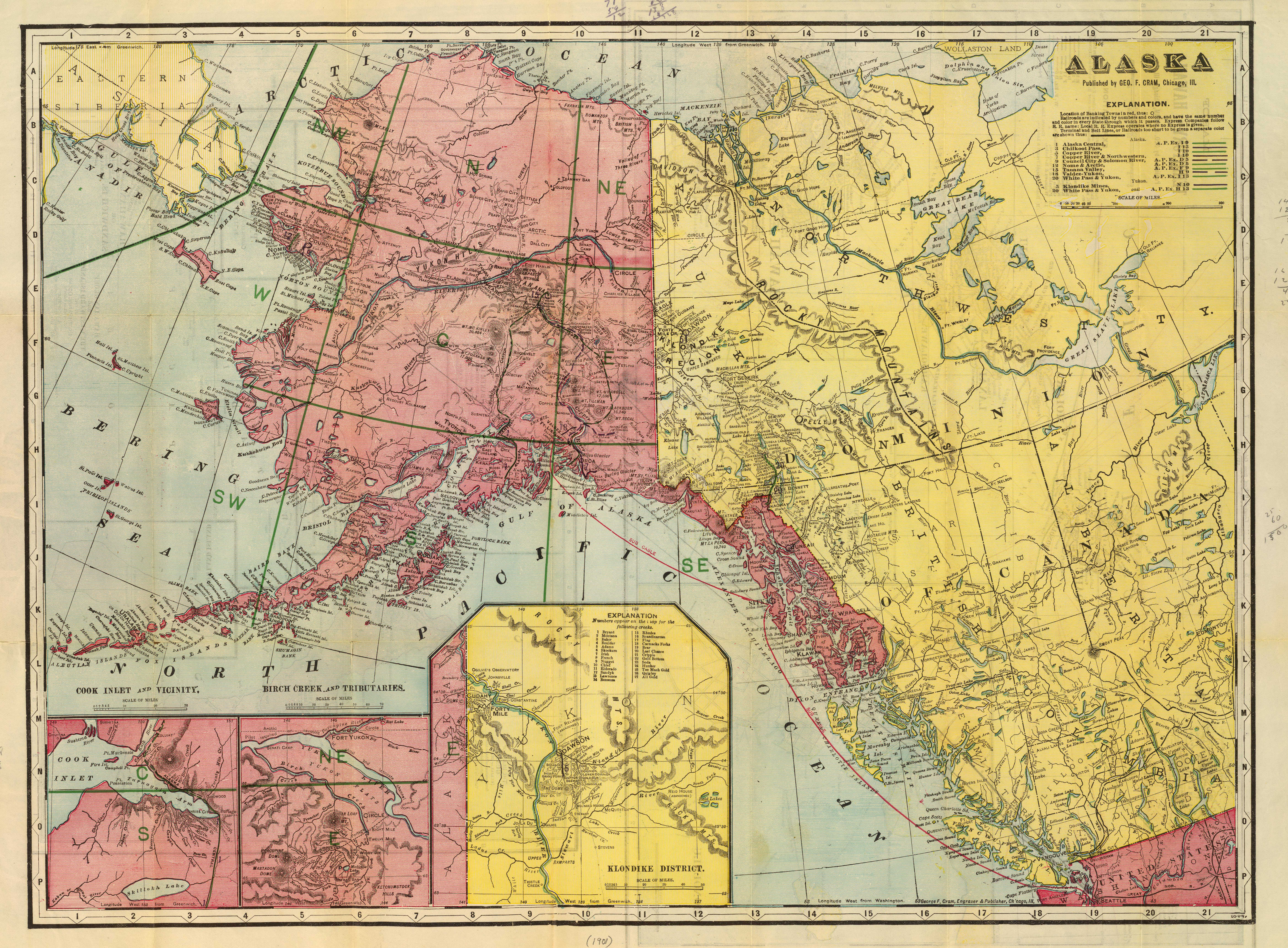 Vintage Map of Canada and Alaska (1901)